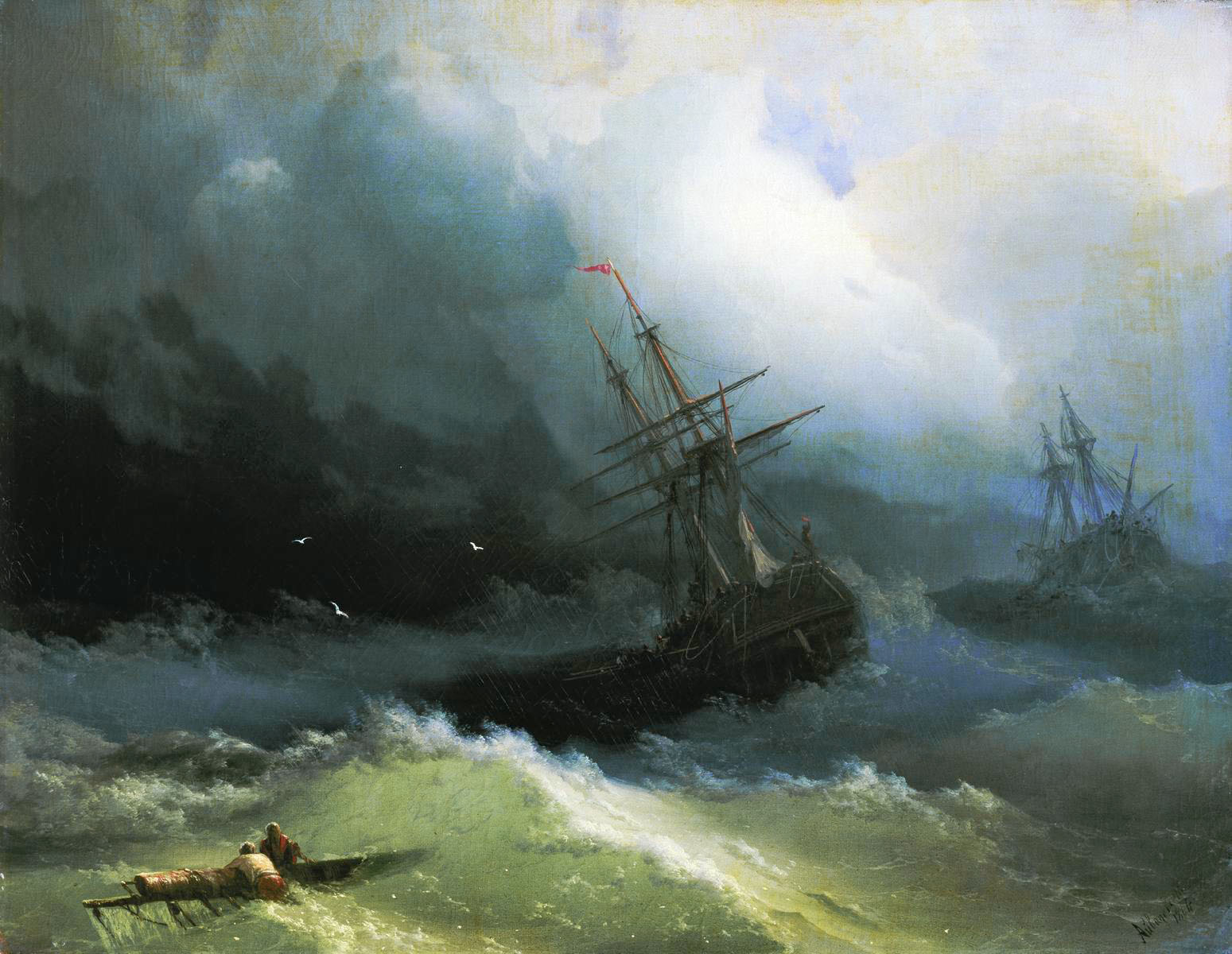 Ayvazovskiy. Ships at the raging sea (1866)